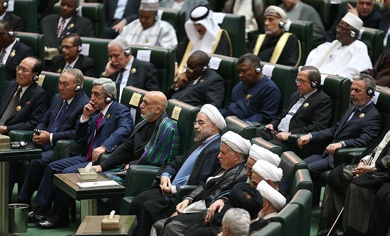 Hassan Rouhani inauguration as President of Iran